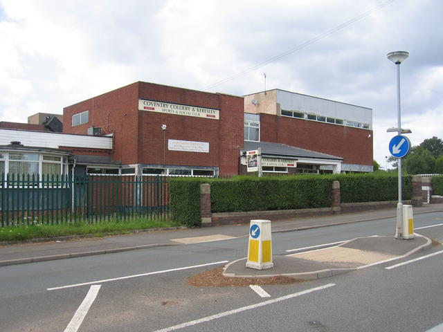 Coventry & Keresley Colliery Sports and Social Club.